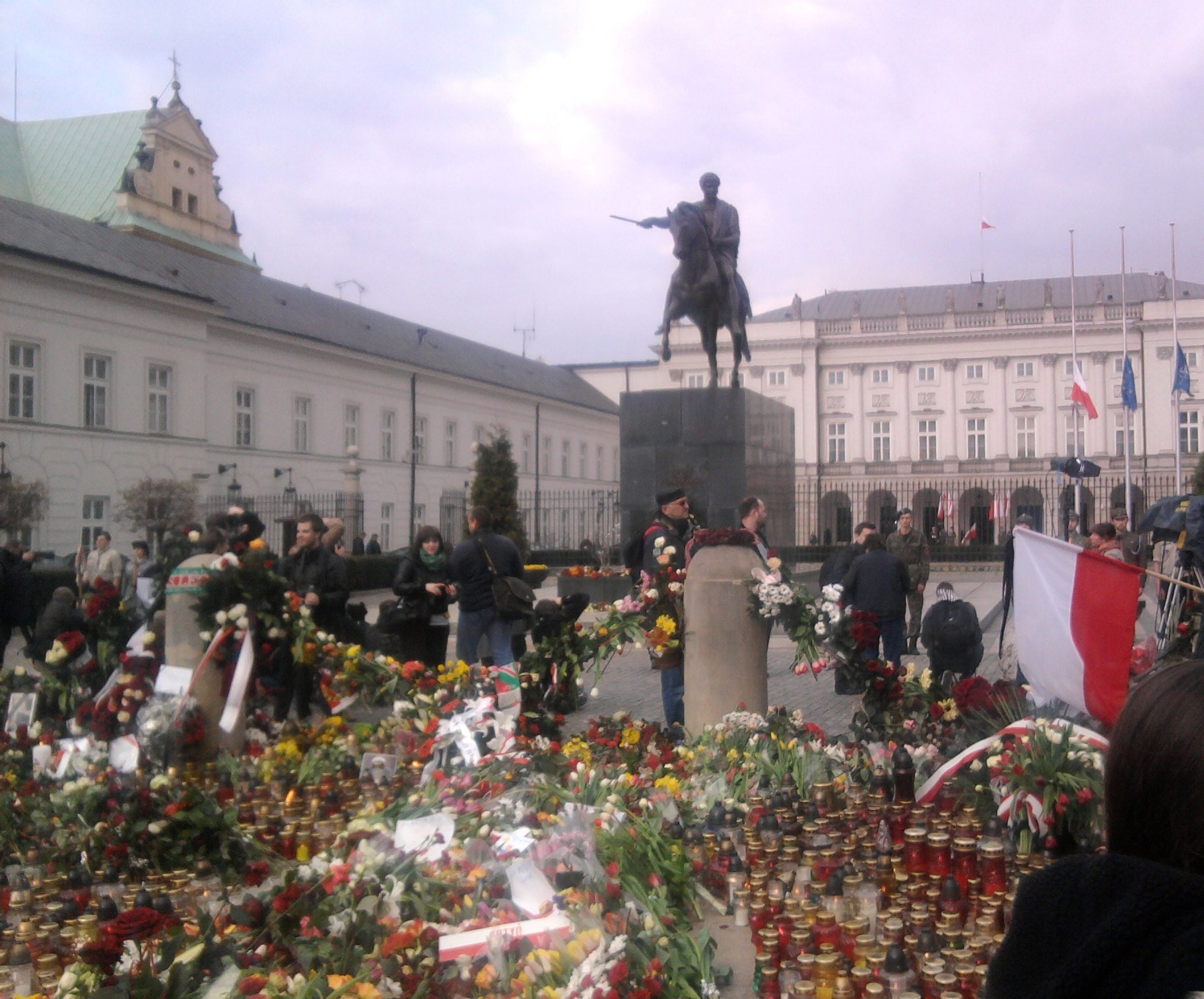 Candles and flowers after death of president Lecz Kaczynski in the plane crash.